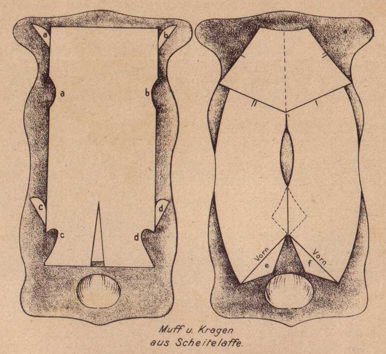 Graphics for Furriers